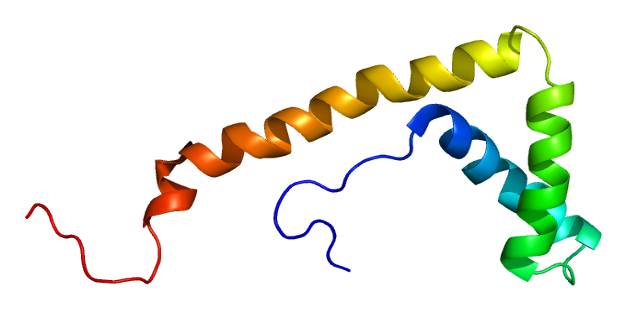 Structure of the HMG20B protein. Based on PyMOL rendering of PDB 2crj.